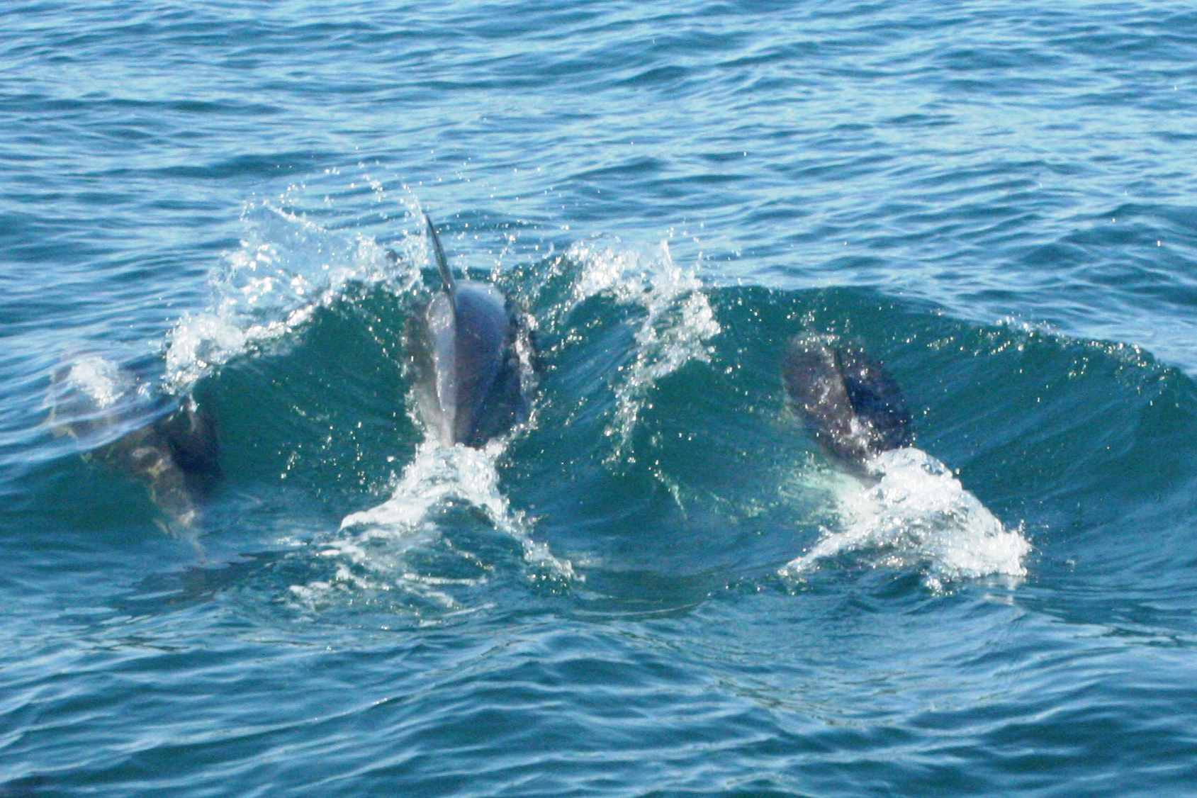 Long-beaked common dolphin